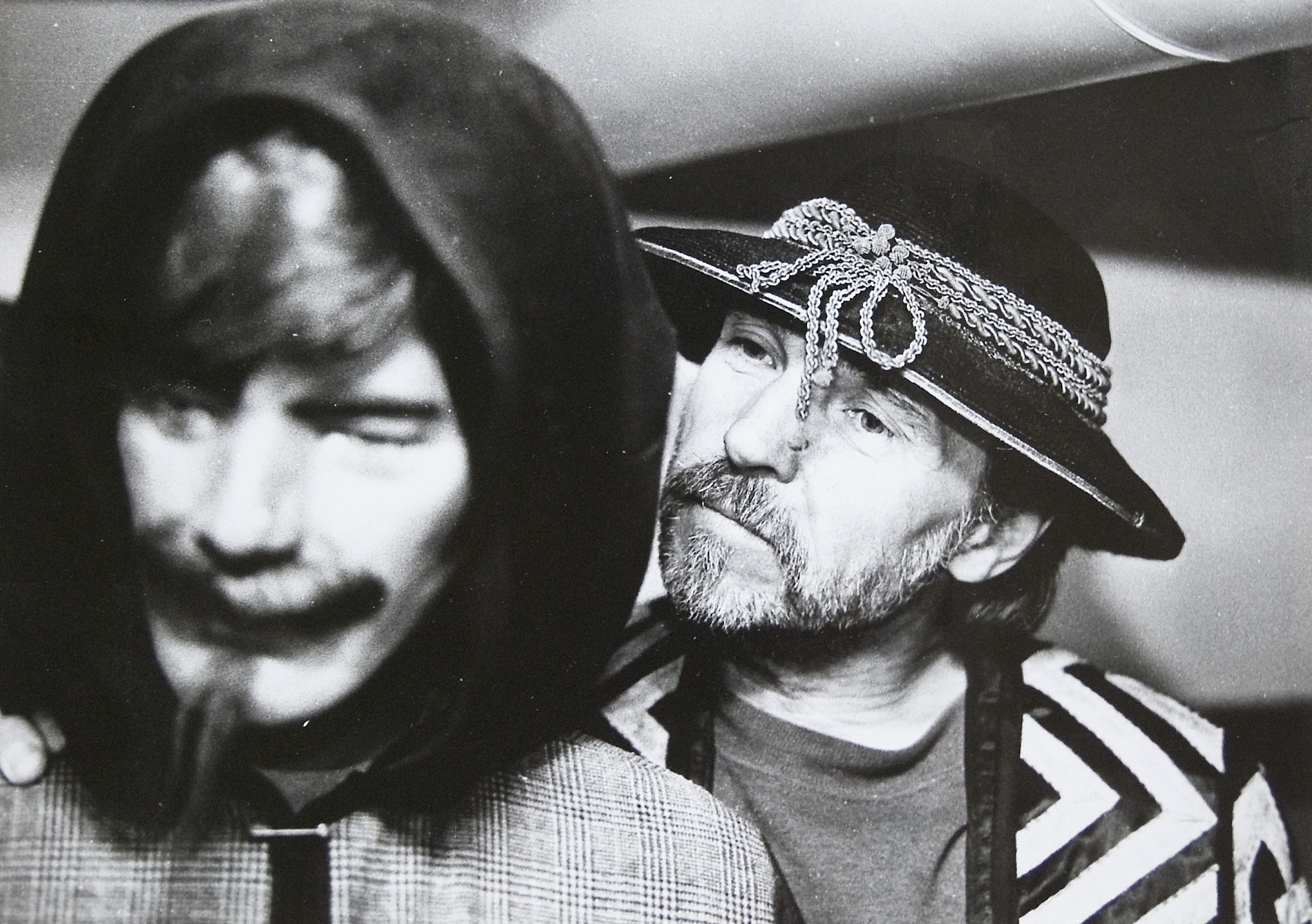 Lubo Kristek - portrait